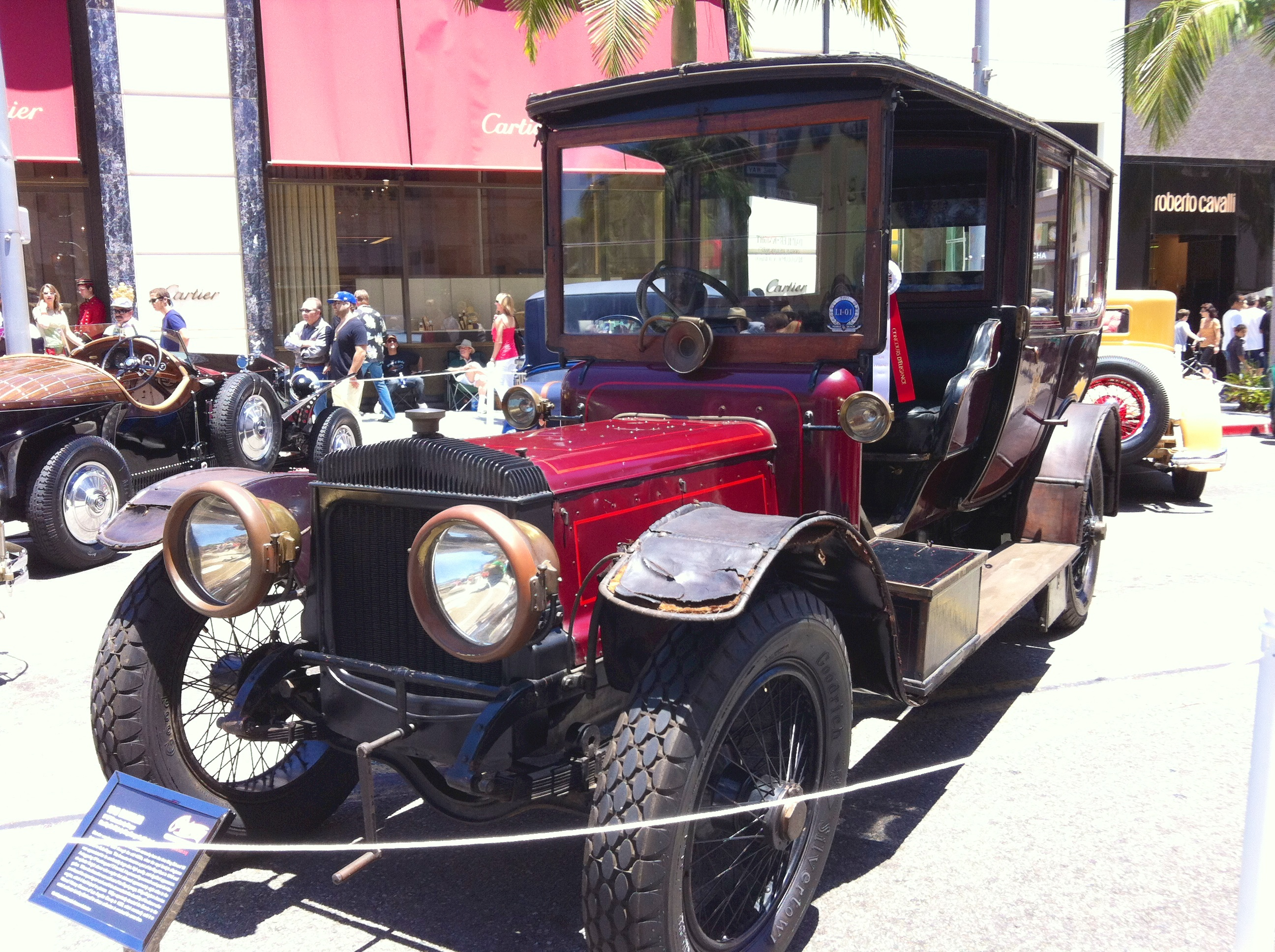 Daimler was the preferred car of the British monarchy from the time King Edward II first rode in one in 1896 through the mid-1950s. This 17-foot-long and 7 1/2 foot-tall Hooper-built limousine was one of eight Daimlers acquired by King George V of England between 1909 and 1924. Powered by a 9.4-liter 6-cylinder Knight sleeve-valve engine that was rated at 57 (RAC) horsepower. video of car on the road video of the engine running before re-installation